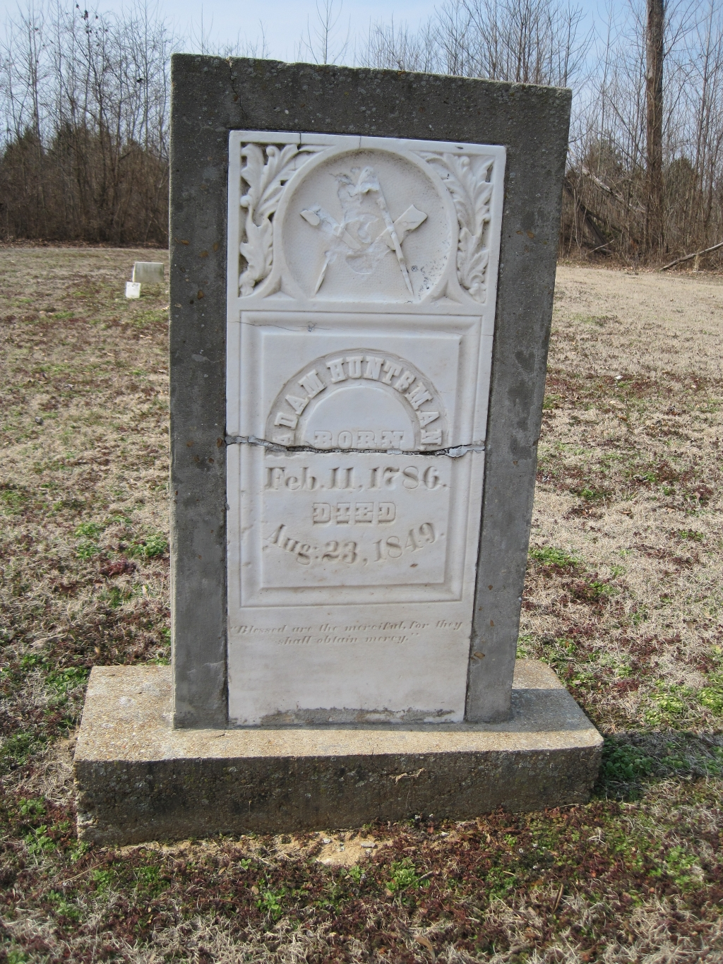 Old Salem Cemetery and Battlefield in Jackson, Tennessee. I took the photo myself, feel free to use it.